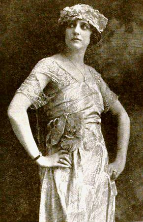 Still from the American film The Virtuous Model (1919) (which had the working title The Gutter at the time this was published) with Dolores Cassinelli, on page 1669 of the June 14, 1919 Moving Picture World.